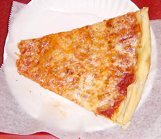 A classic New York slice, October 20, 2002, by Pete Harris.